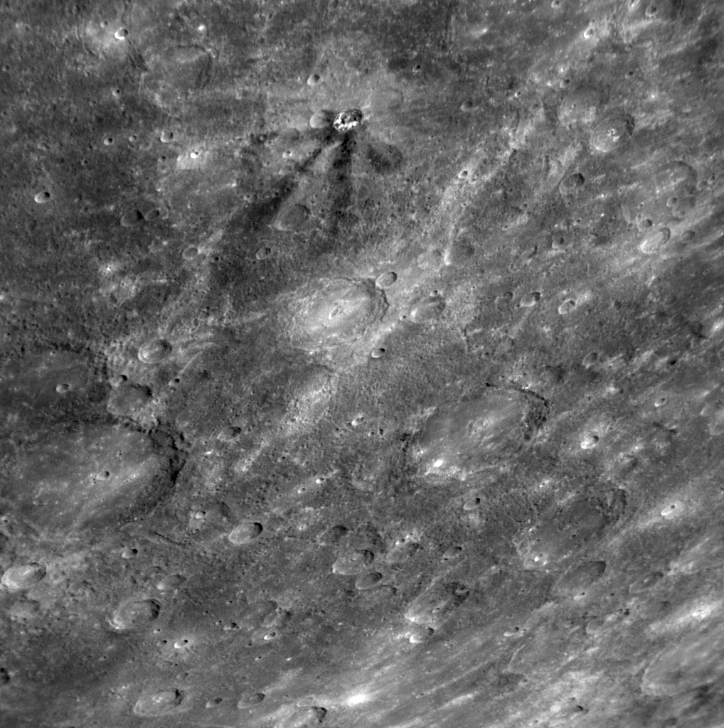 The rayed crater is now called Matabei. Image Mission Elapsed Time (MET): 131773885 Instrument: Narrow Angle Camera (NAC) of the Mercury Dual Imaging System (MDIS) Resolution: 520 meters/pixel (0.32 miles/pixel) at the top of the image Scale: The top of this image is about 530 kilometers across (330 miles) Spacecraft Altitude: 20,300 kilometers (12,600 miles) Of Interest: When a meteoroid strikes the surface of a planet, material from the surface is ejected outward at high velocity, often creating rays that extend over distances far greater than the size of the crater formed by the impact. During MESSENGER’s second Mercury flyby, MDIS captured images of impressive rays on Mercury, such as the ejecta prominent around Kuiper crater and the extensive ray system associated with a newly imaged crater in Mercury’s northern latitudes. In both of those examples, the rays appear bright, which is characteristic of freshly pulverized rock and indicates that the rays are younger than much of Mercury’s surface. In contrast, in the upper portion of this NAC image, a set of dark rays is seen emerging from a small crater. Dark rays are rare on Mercury, but other occurrences have been identified, such as at Mozart crater (imaged during MESSENGER’s first Mercury flyby). Mozart crater is interpreted to have excavated dark material from depth during the impact event, creating dark streamers. The dark rays from the crater shown here may have a similar origin, and color imaging from the Wide Angle Camera (WAC) gathered during the flyby is being used to explore the nature of these unusual dark rays further.